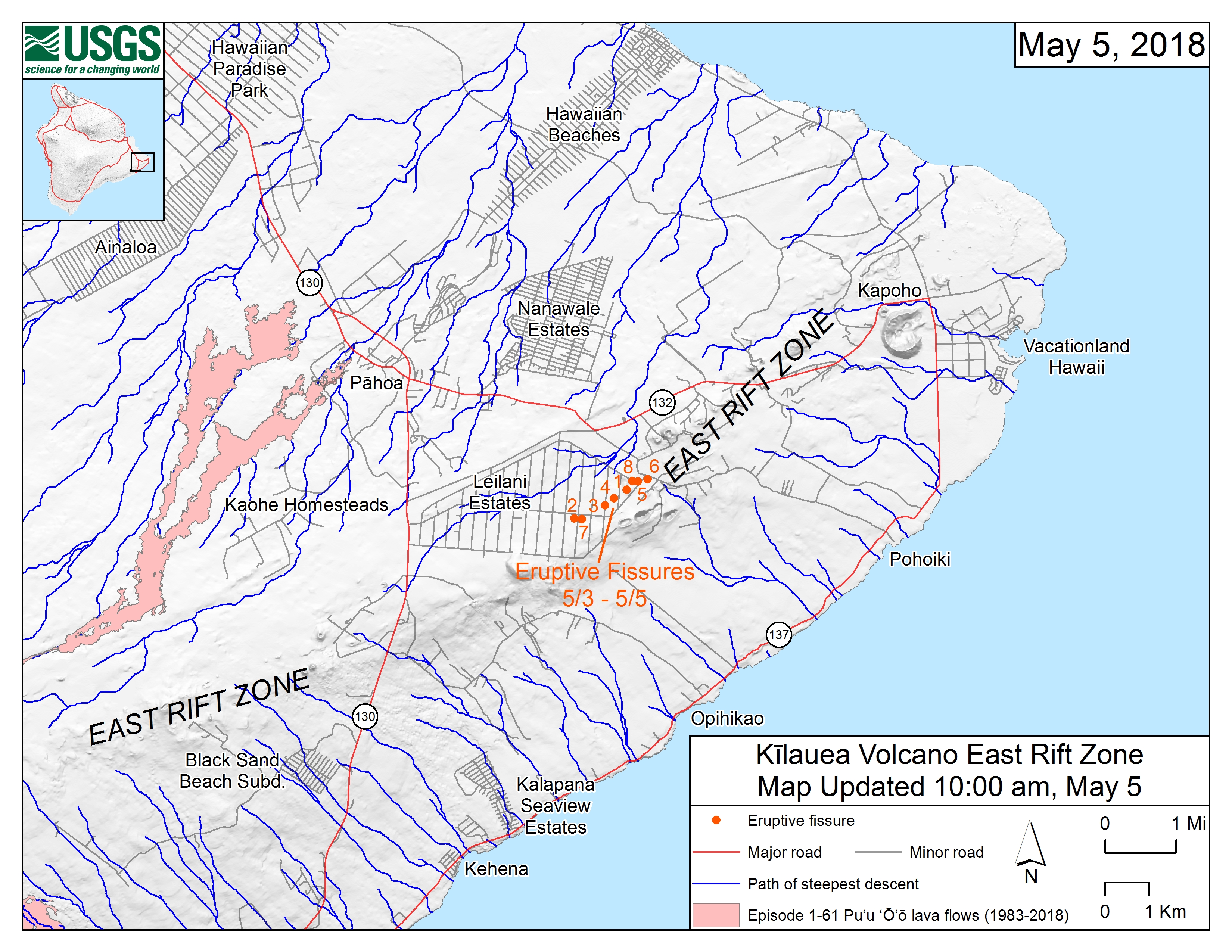 Map of the locations of eruptive fissures and the steepest descent paths in area of eruptive fissures, Kīlauea East Rift Zone; 10:00 a.m. HST (May 5, 2018) This map shows the locations of eruptive fissures in the order that they occurred in the Leilani Estates Subdivision as of 10:00 a.m. HST (May 5, 2018). The blue lines are paths of steepest descent that identify likely paths of a lava flow, if and when lava moves downhill from an erupting vent. The paths of steepest-descent were calculated from a 1983 digital elevation model (DEM) of the Island of Hawai‘i, created from digitized contours. Steepest-descent path analysis is based on the assumption that the DEM perfectly represents the earth's surface. DEMs, however, are not perfect, so the blue lines on this map can be used to infer only approximate lava-flow paths. The base shaded-relief map was made from the 1983 10-m (DEM). For additional explanation of steepest descent paths, For calculation details, ESRI shapefiles, and KMZ versions of steepest descent paths